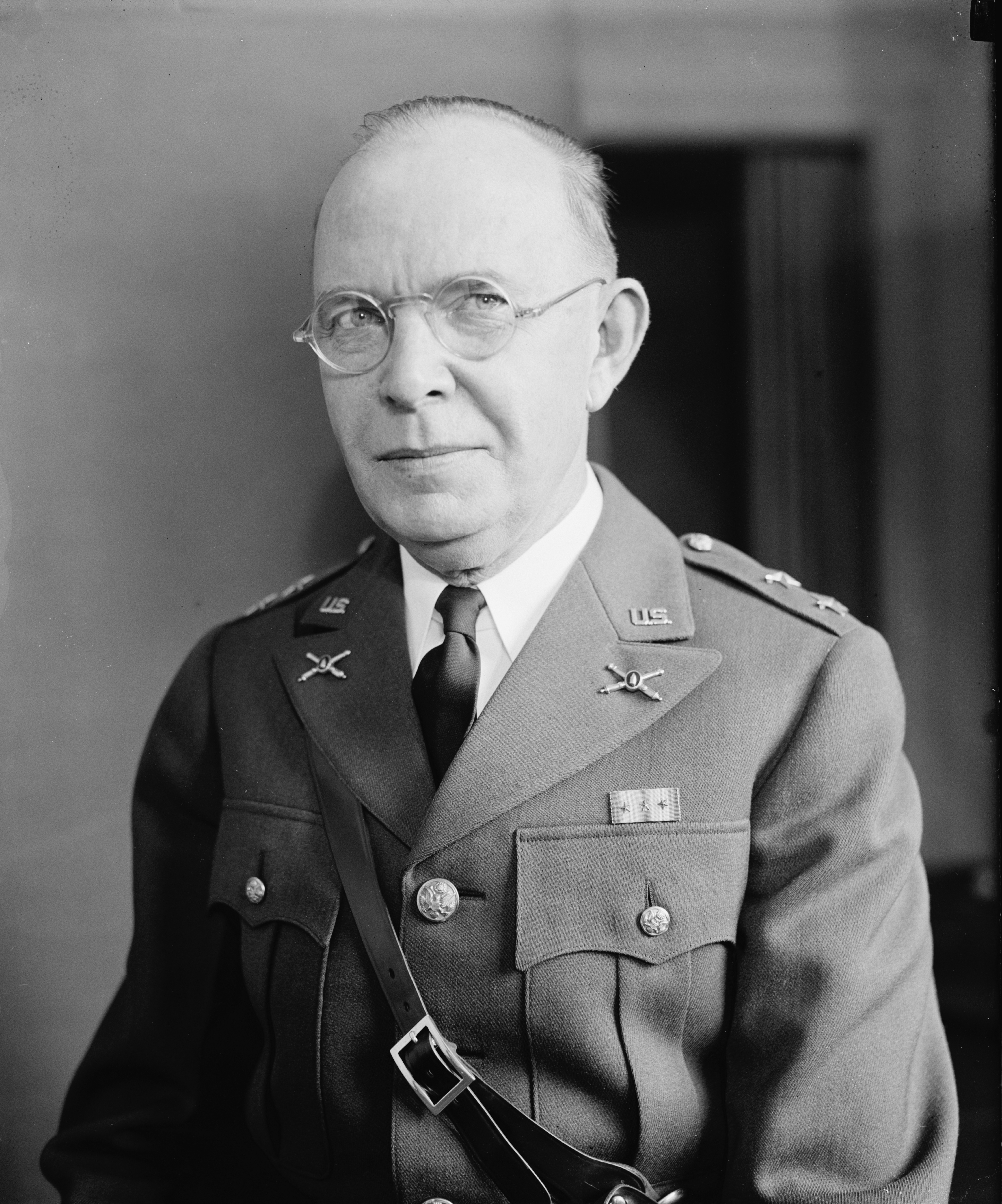 Title: Maj. Gen. Joseph A. Green, new Chief of Coast Artillery, U.S. Army, April 1940 Abstract/medium: 1 negative : glass ; 4 x 5 in. or smaller